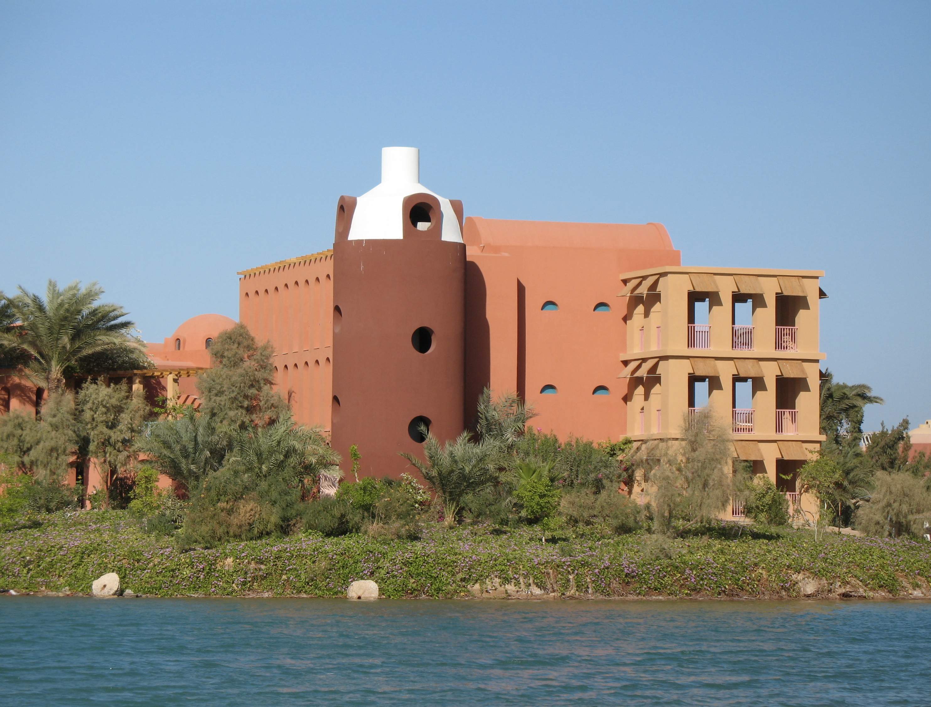 El Gouna (Red Sea, Egypt): Sheraton Hotel